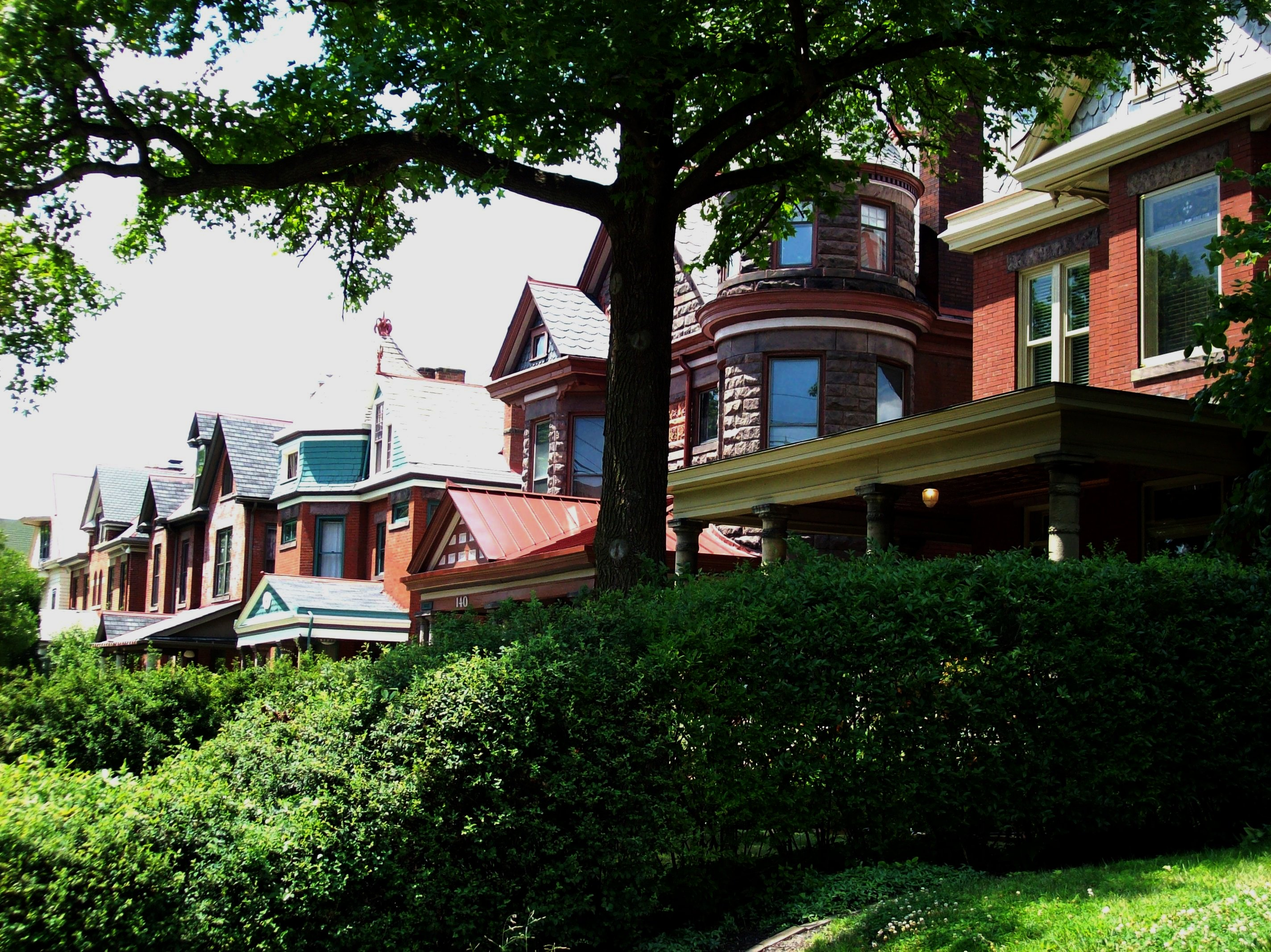 Homes along Goodale Park.